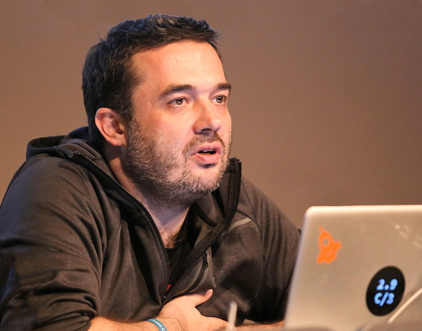 End of the year review for the Chaos Computer Club at the 30th Chaos Communication Congress in Hamburg, 2013. With Linus Neumann, Constanze Kurz and Frank Rieger (from left to right).